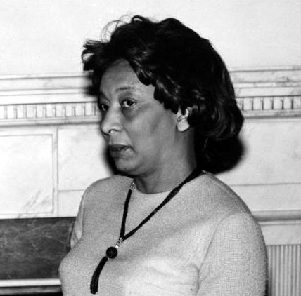 "Jackson cropped from a pic - Joseph E. Wood presents a pamphlet to Sara D. Jackson, April 20, 1965"